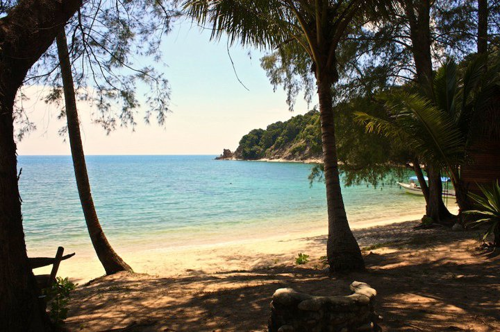 A small island off the East coast of Malaysia.